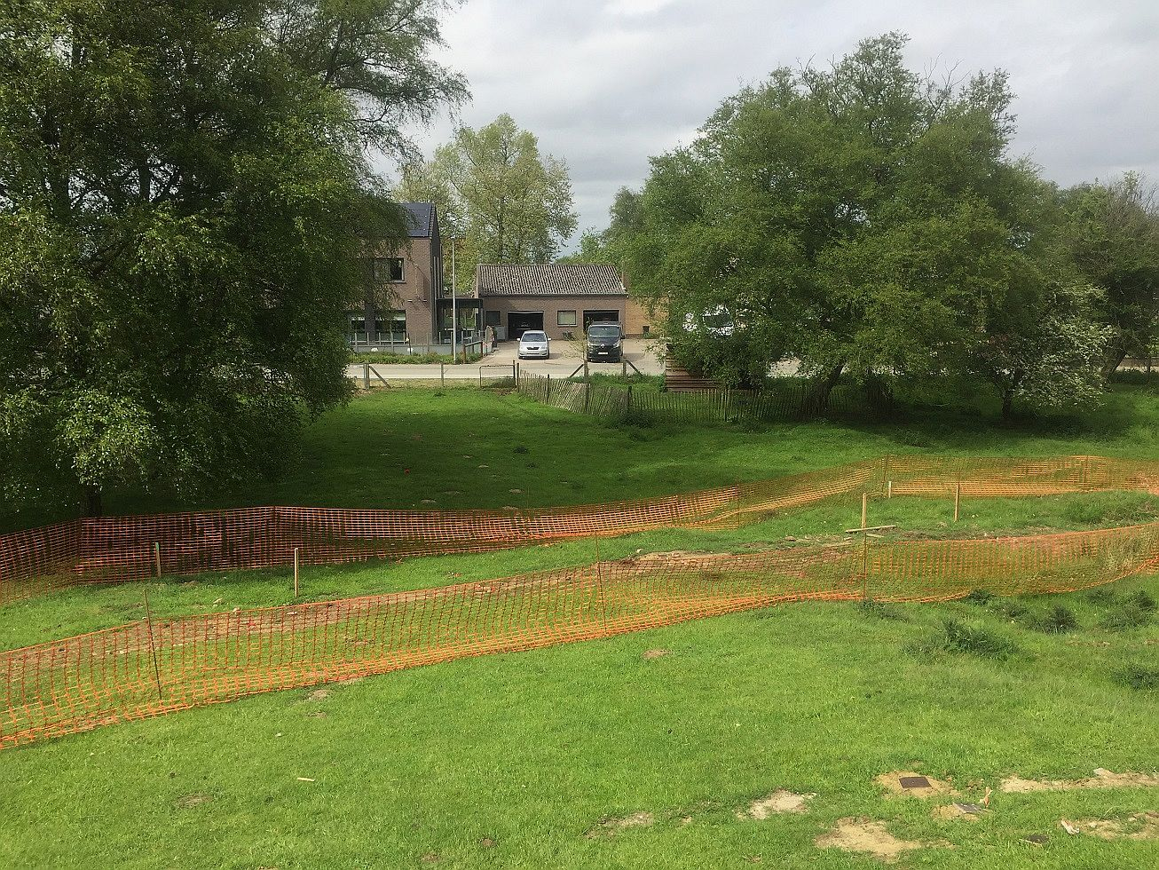 Hill 60, Ypres, Belgium: battlefield memorial park. This image shows the relative altitude of Hill 60 when compared to its surrounding landscape.